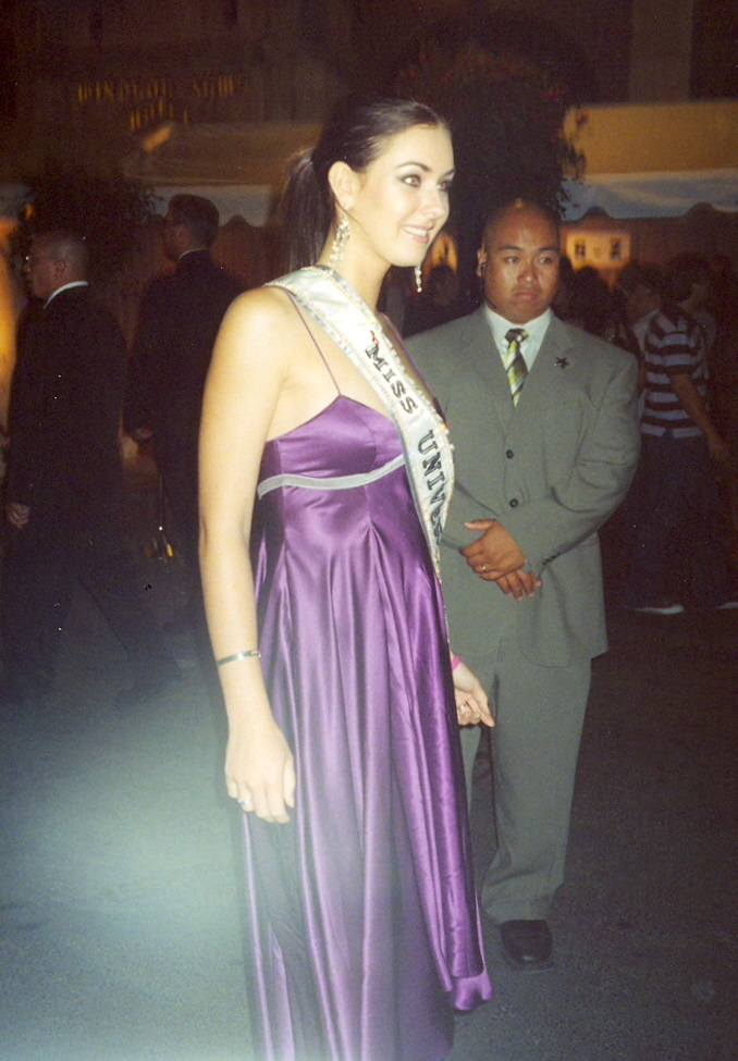 Here from the other side and in purple, Miss Universe 2005 Natalie Glebova on hand for the festivities at the 2005 Toronto Film Festival